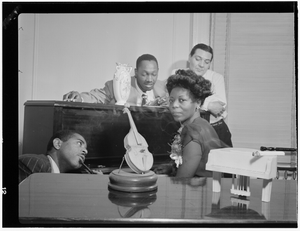 Dizzy Gillespie, Tadd Dameron, Mary Lou Williams, and Jack Teagarden, Mary Lou Williams' apartment, New York, N.Y.